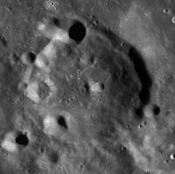 Von der Pahlen crater, on the far side of the moon. Mosaic of LRO WAC images.